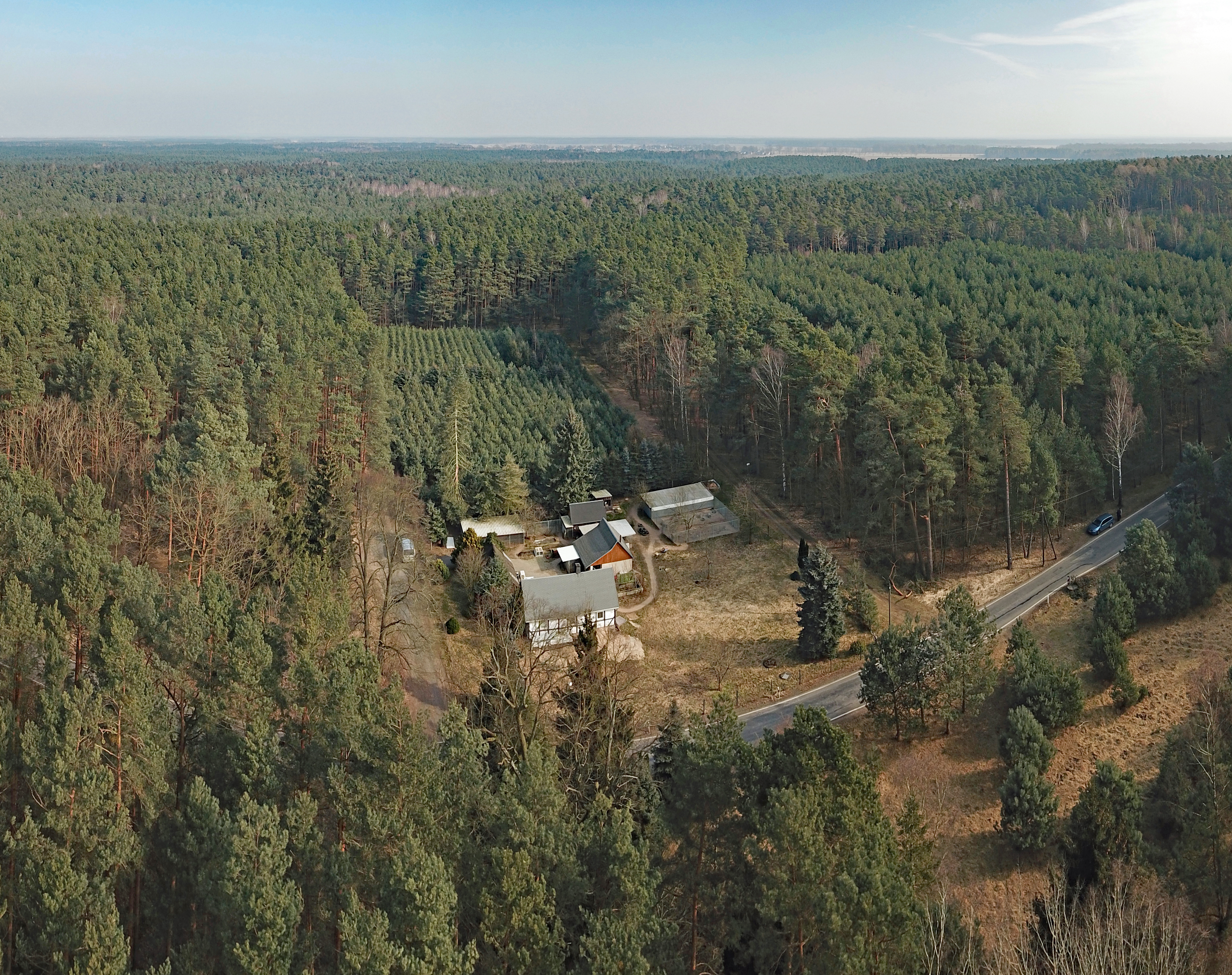 Neu-Schmerlitz (Ralbitz-Rosenthal, Saxony, Germany) Hornjoserbsce: Powětrowy wobraz Bušenki